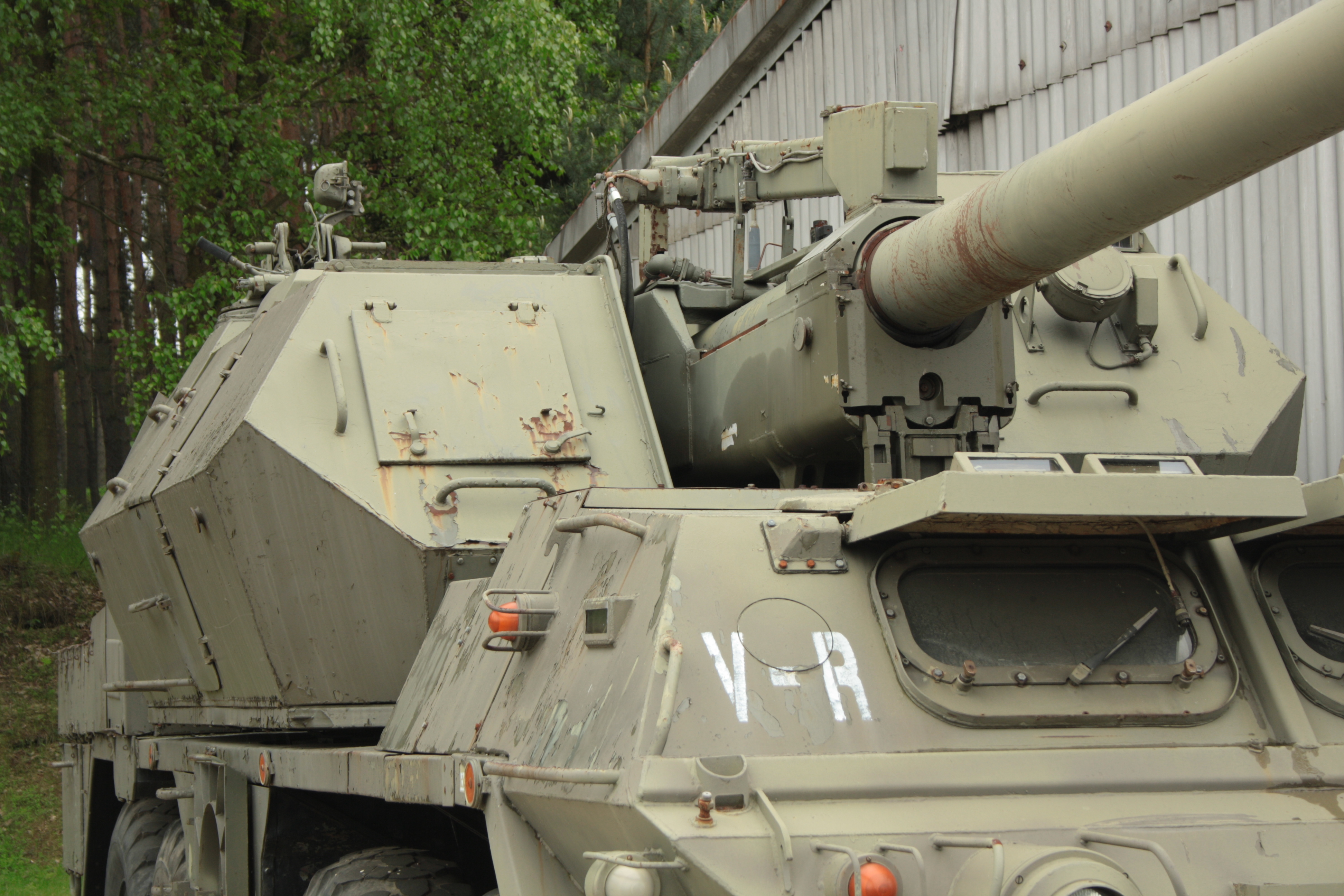 Czechoslovak Ondava howitzer, modernized version of older (and better known Dana) in Lešany military museum, Central Bohemian Region, CZ This photograph was taken with a DSLR from WMCZ's Camera grant. This picture was taken and/or got within the scope of the 'Acquiring scientific and specialized pictures' grant.